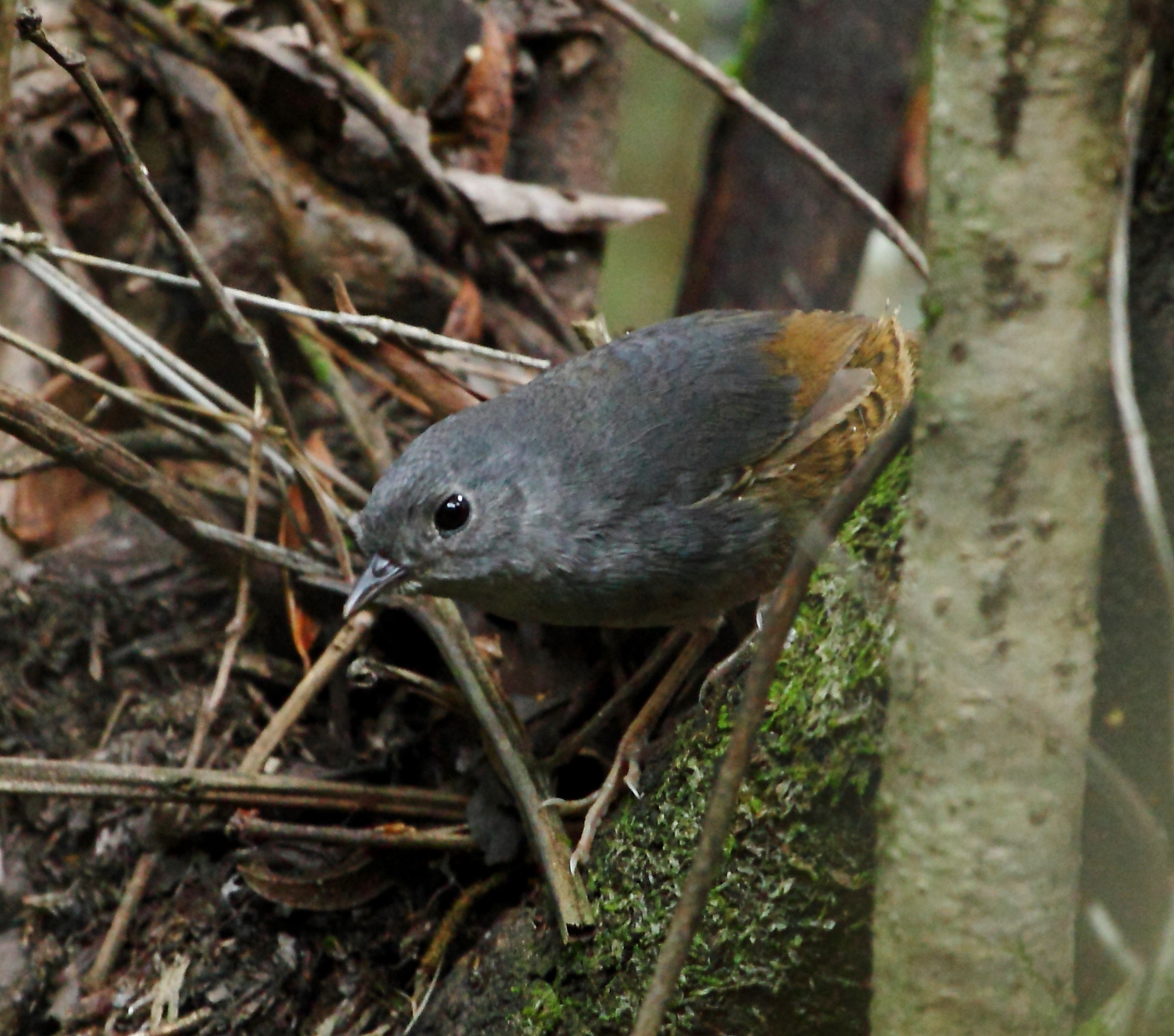 Brasilia Tapaculo at Serra da Canastra National Park - MG - Brazil